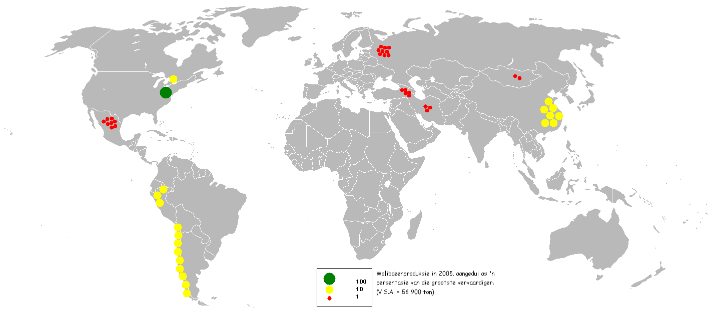 his bubble map shows the global distribution of molybdenum output in 2005 as a percentage of the top producer (USA - 56,900 tonnes).